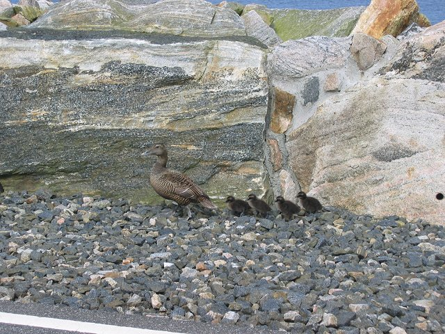 Eiders on the causeway between Berneray and North Uist, Outer Hebrides, Scotland